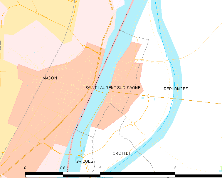 Map of French commune: Saint-Laurent-sur-Saône Map commune FR insee code 01370.png